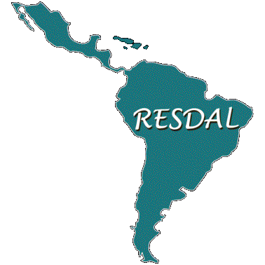 nueva imagen